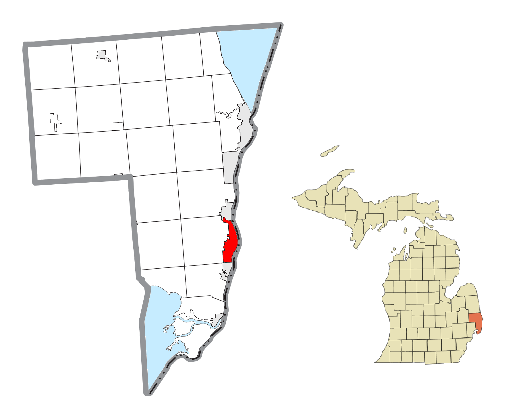 East China Charter Township, MI